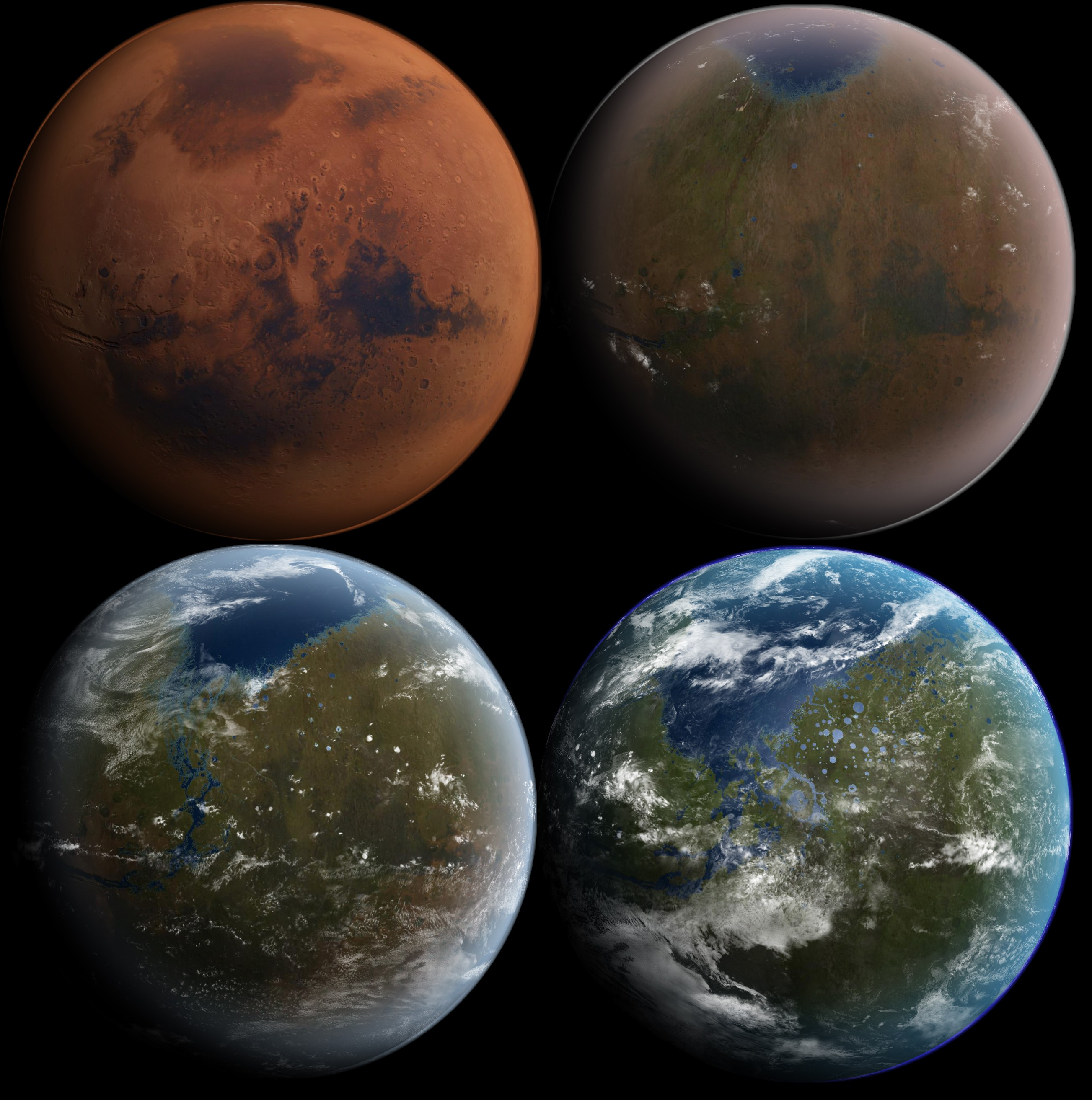 Copied from Image:MarsTransitionV.jpg: "..."